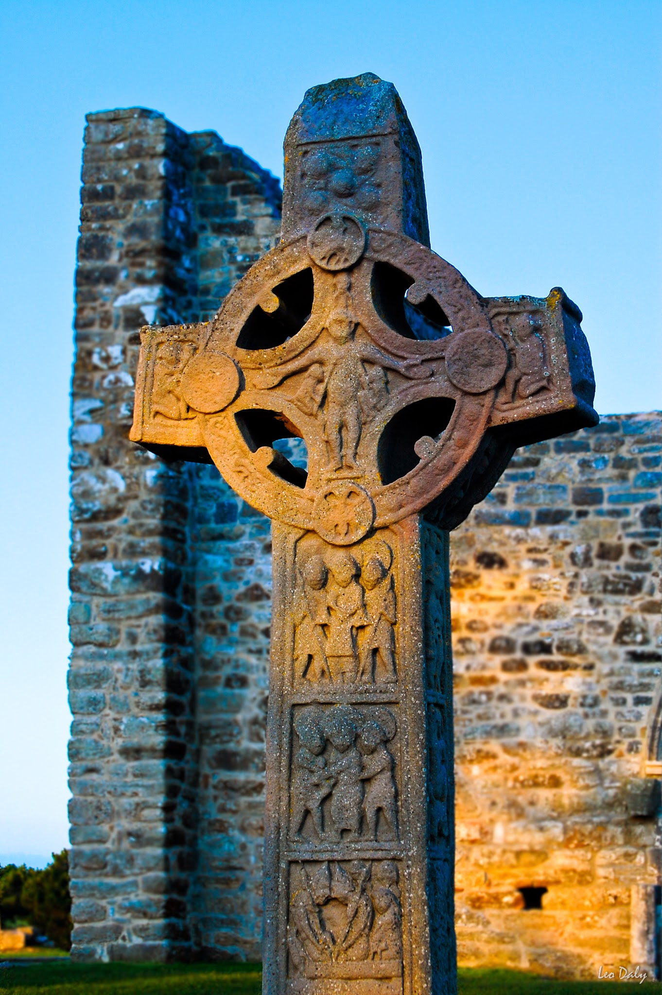 Clonmacnoise Early Medieval Ecclesiastical Site